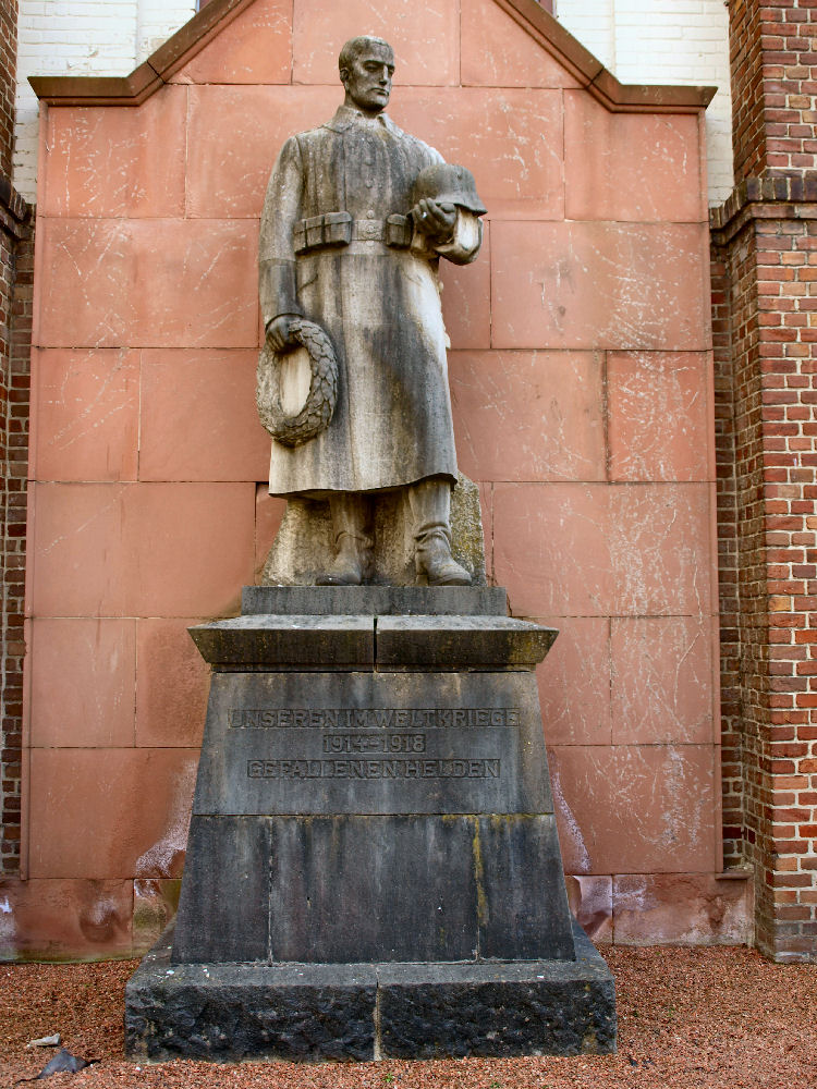 Kriegerdenkmal am Nino-Ballenlager